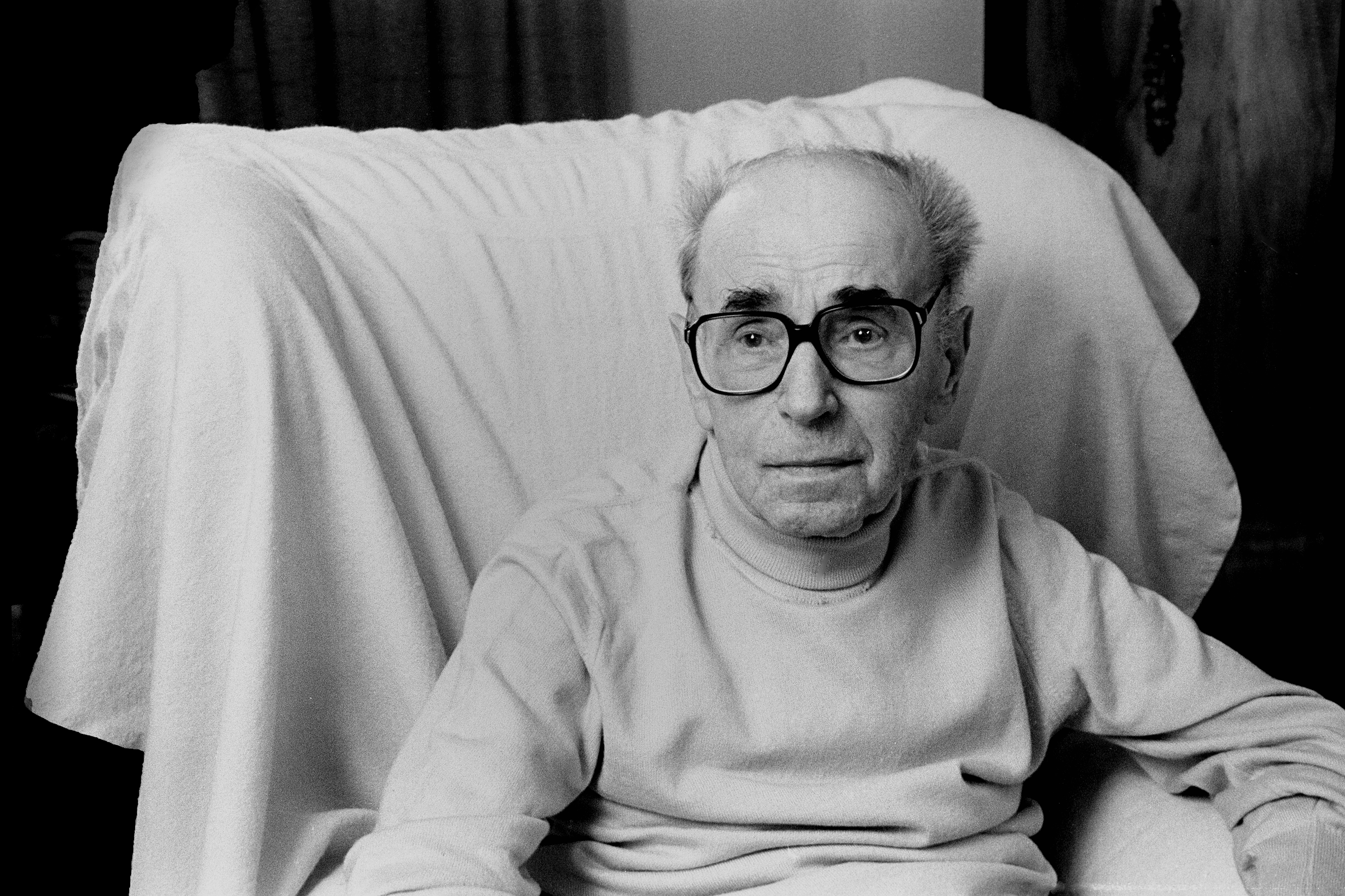 Jiří Kolář ,Czech poet and artist